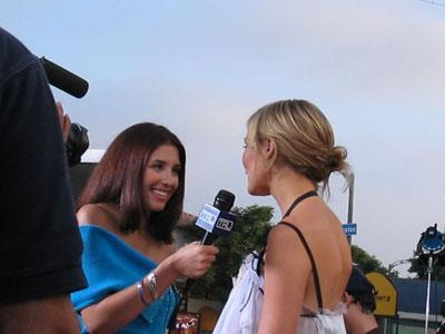 Diana Falzone hosting TRL